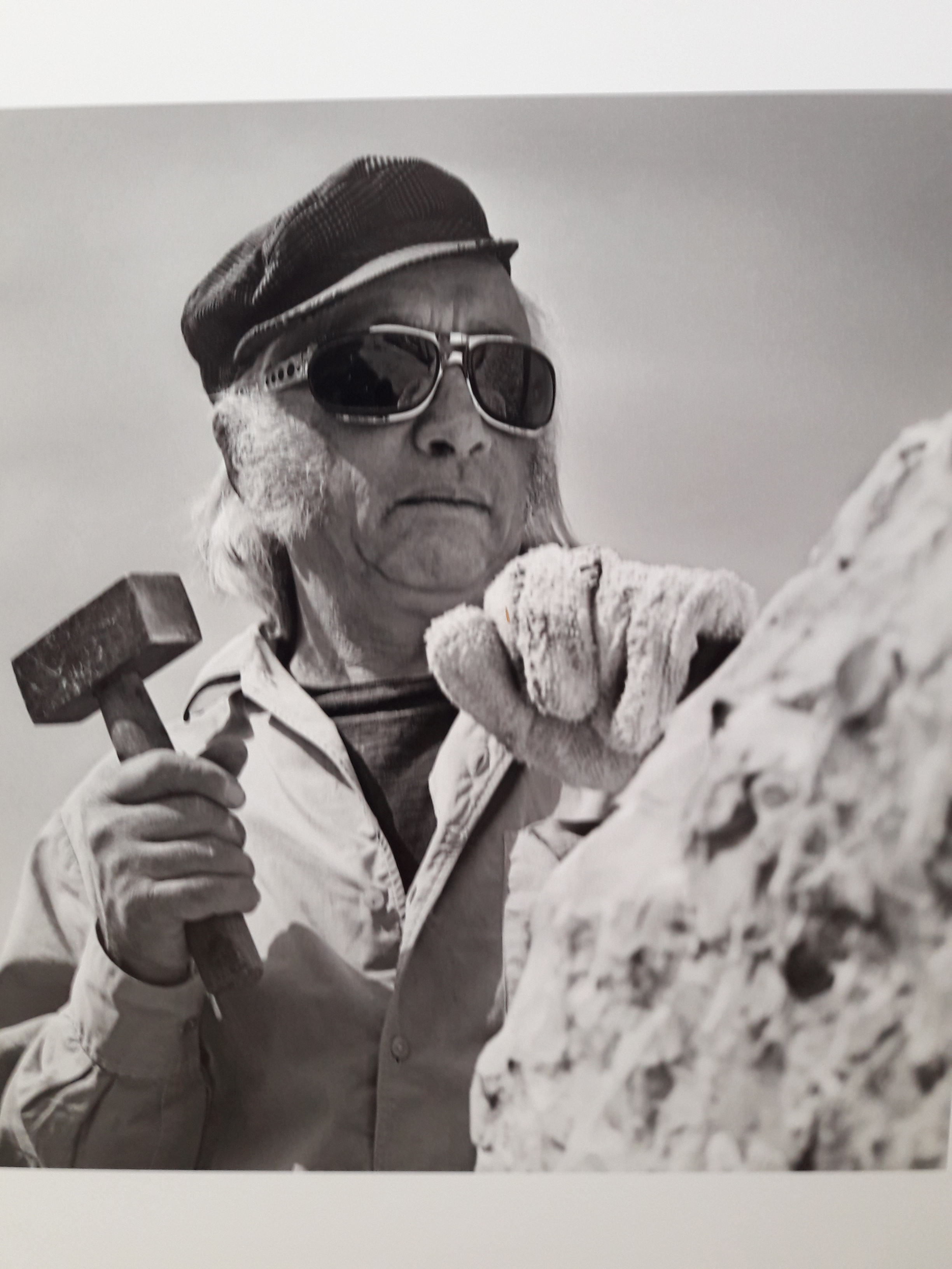 Israeli sculptor